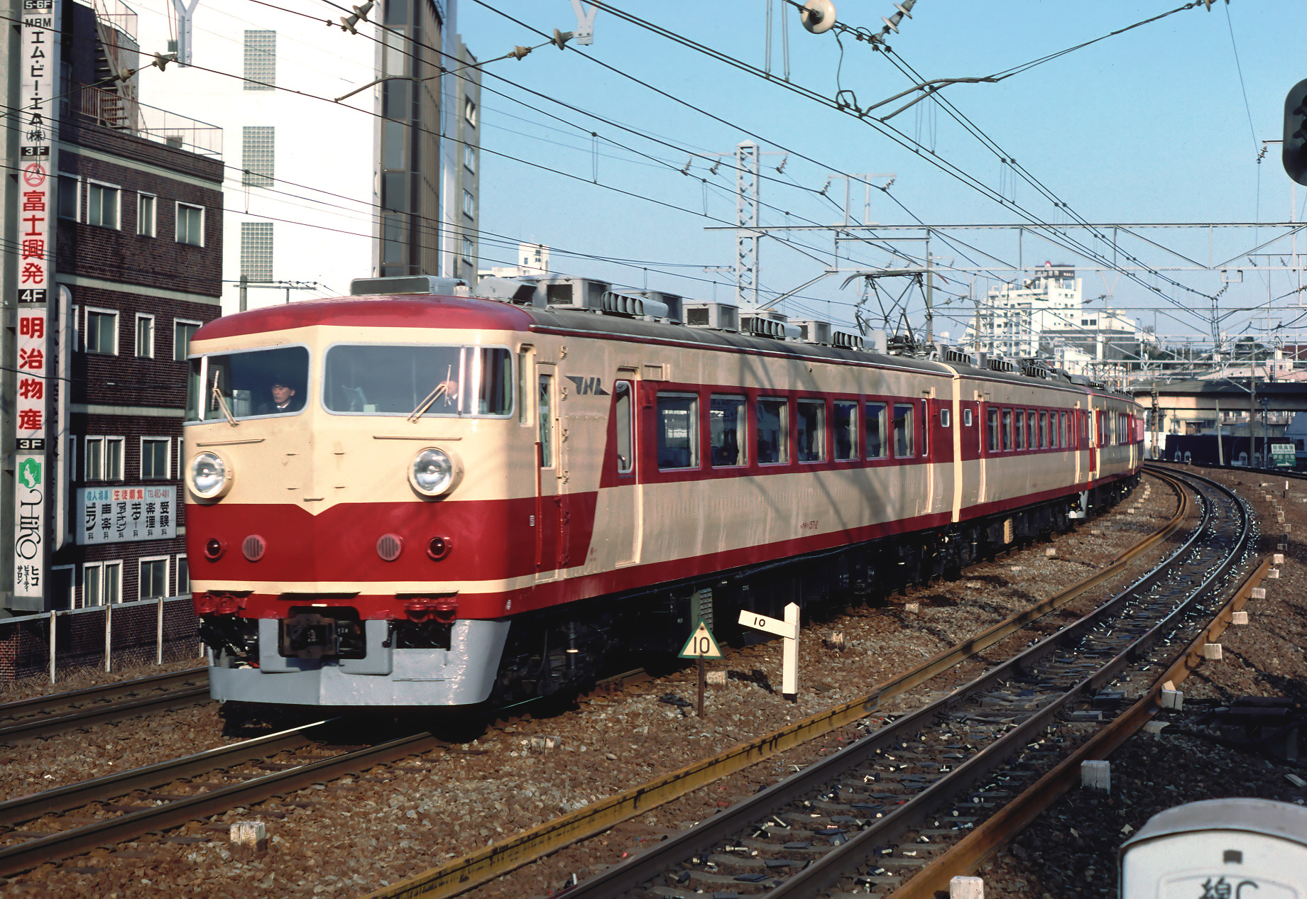 Japanese National Railways 157 series EMU including the dedicated imperial train car KuRo157 on an empty stock working on the Yamanote Freight Line near Gotanda Station.